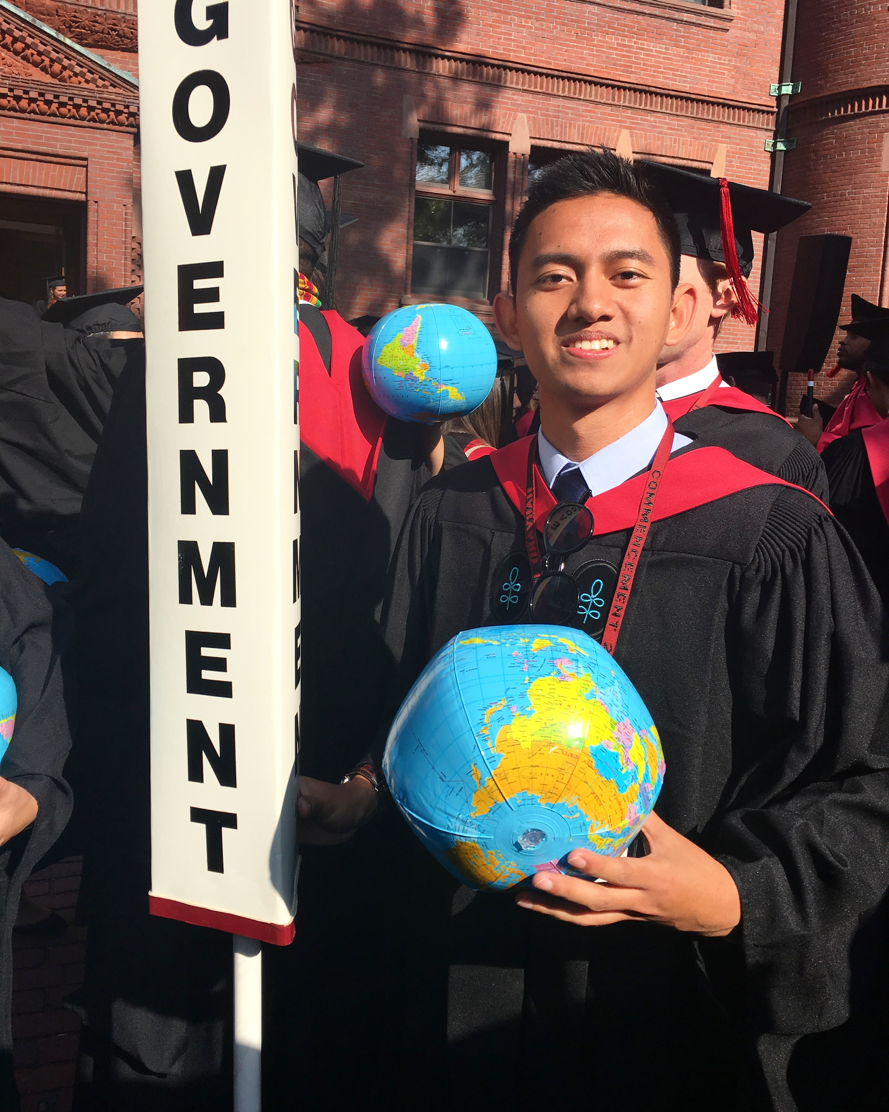 Belva Devara Wisuda Harvard 2016